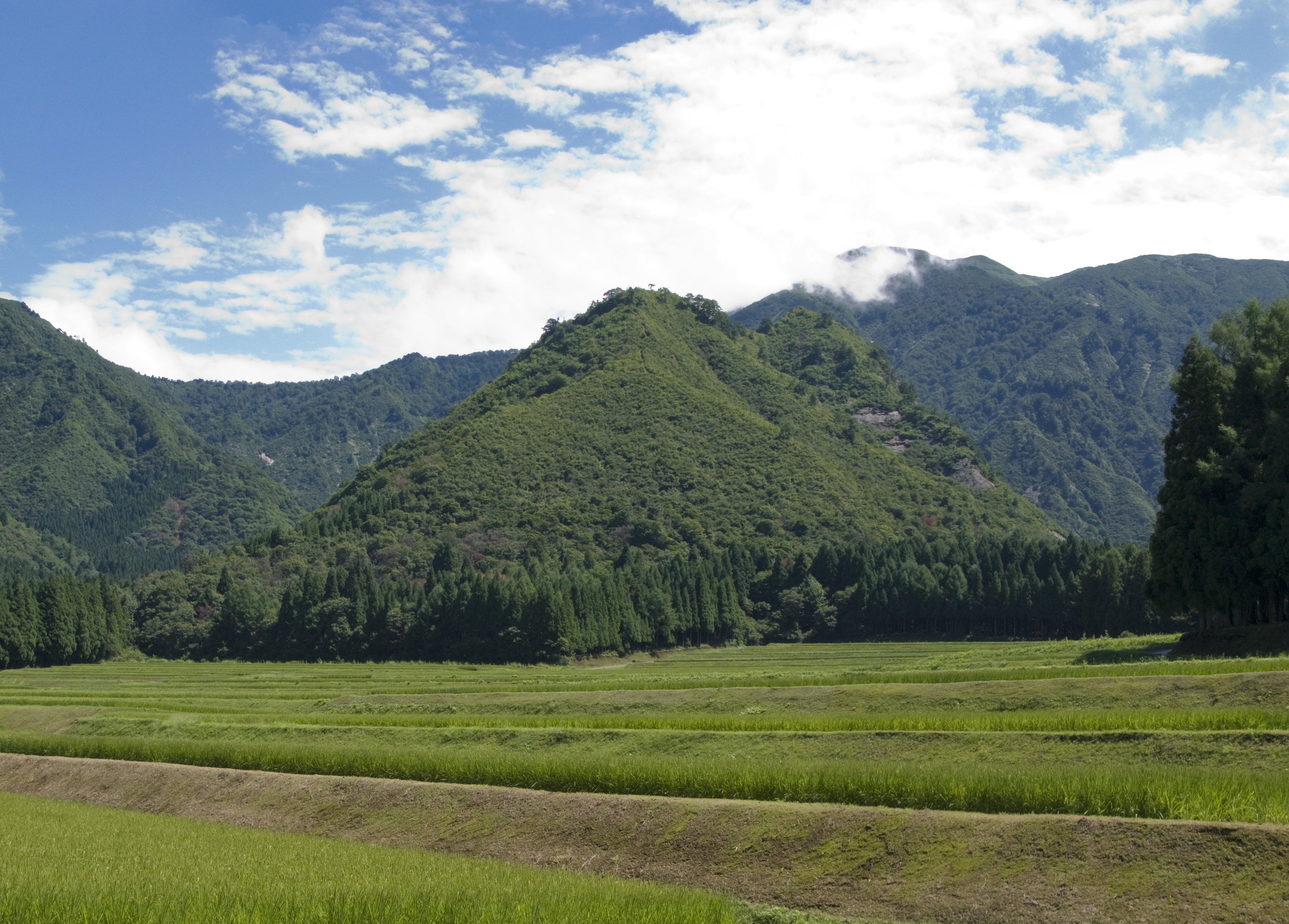 Mount Kogara (Kogarasan) in Niigata, Japan